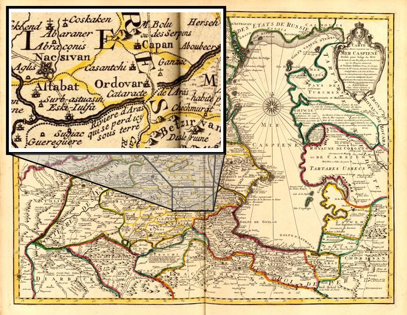 Ordubad on the map of Guillaume de Lisle